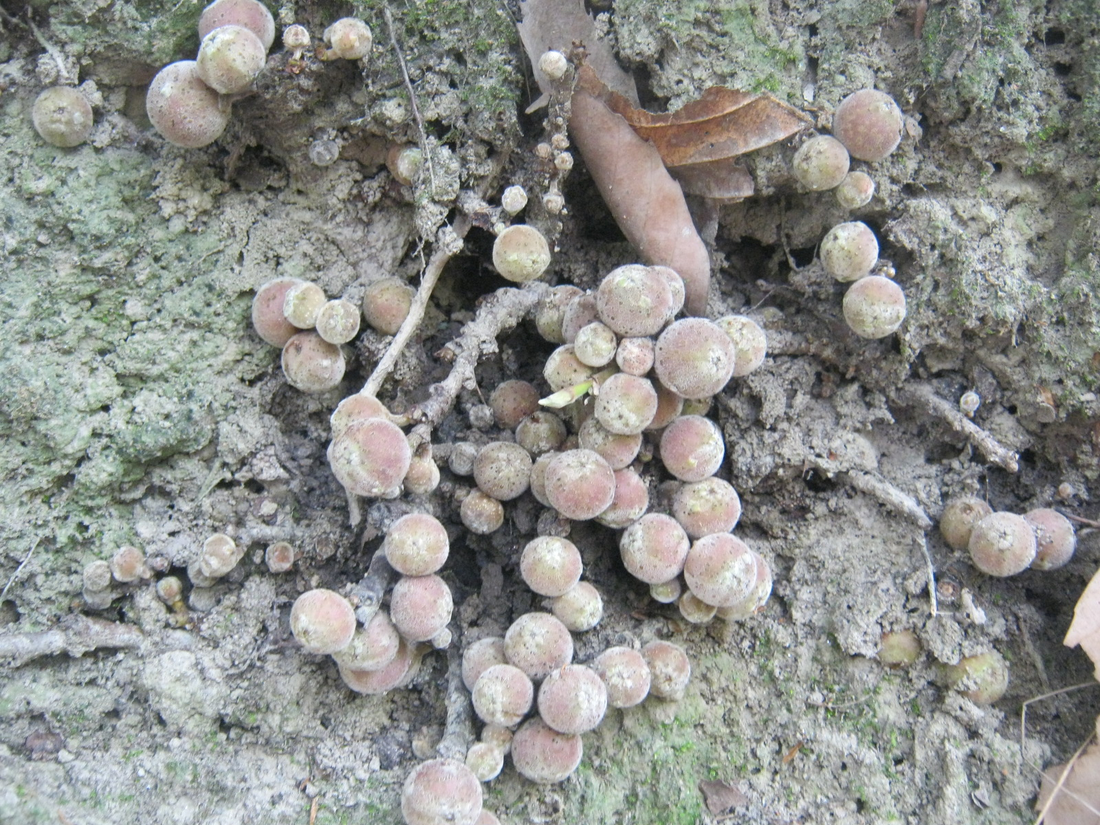 Fruit during March.